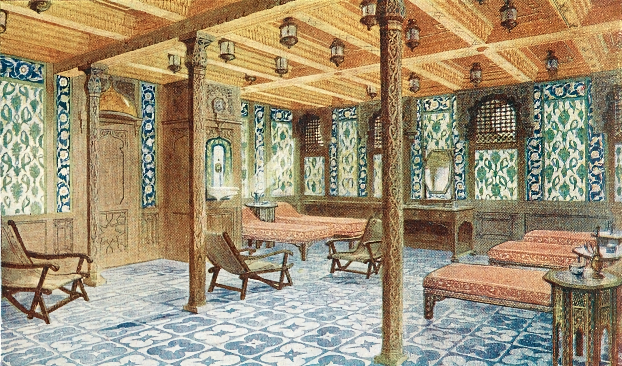 A contemporary illustration of the Cool Room in the Turkish Baths facility on the RMS Olympic